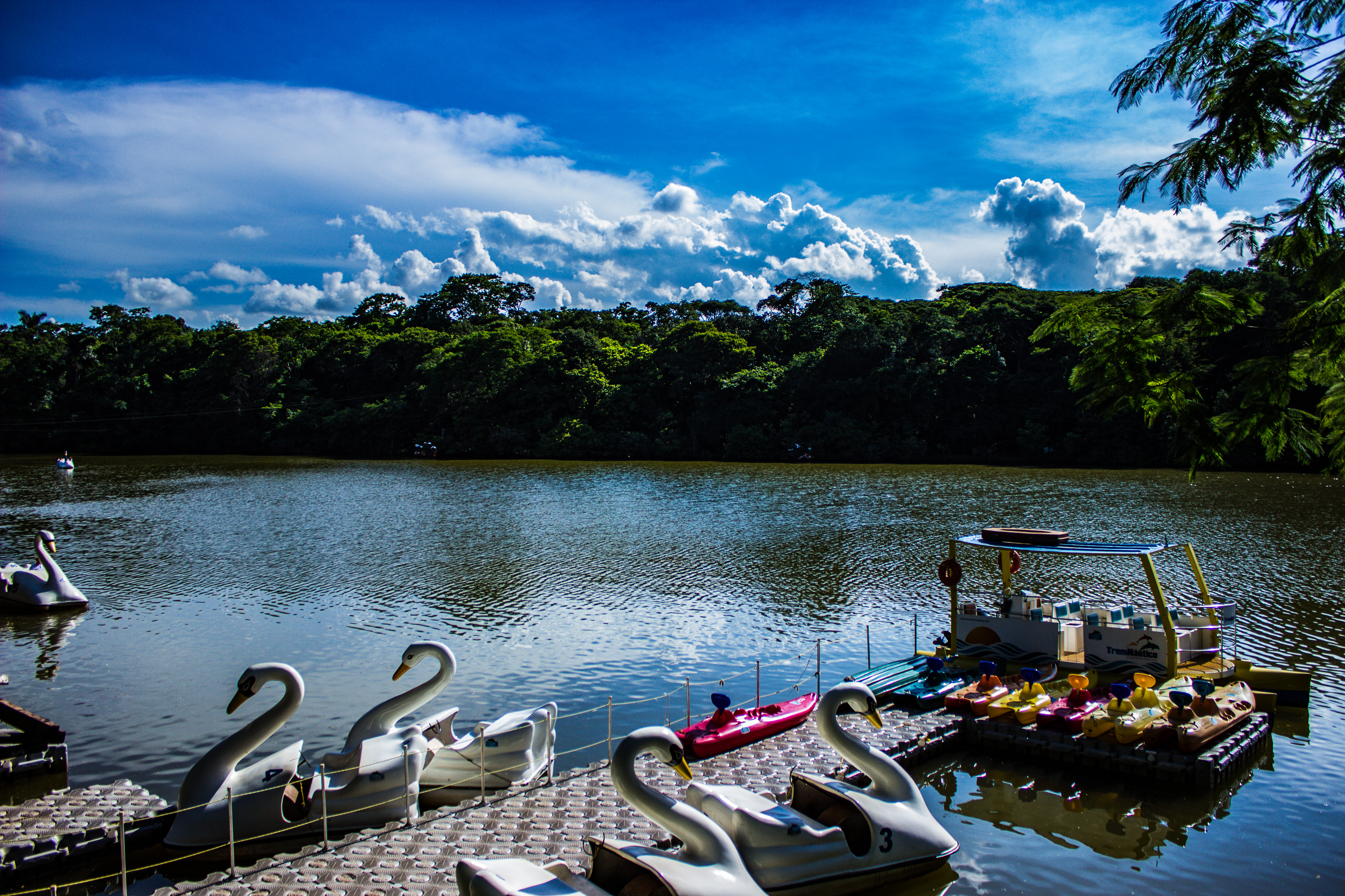 Parque do Ingá Prefeito Adriano José Valente, a forest conservation unit kept since the town was founded. The picture shows the artificial lake with the swanboats